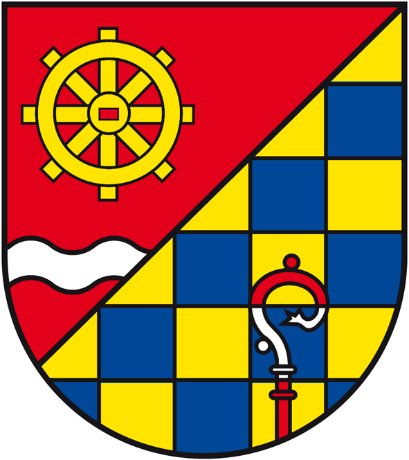 Coat of arms of Kludenbach